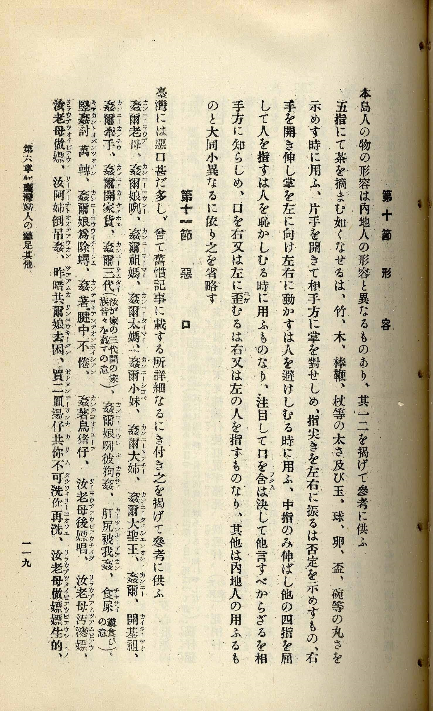 Profanities (lah-sap-ōe) of Taiwanese Hokkien Bân-lâm-gú: Bân-lâm-gú Tâi-oân Hong-giân ê lah-sap-ōe